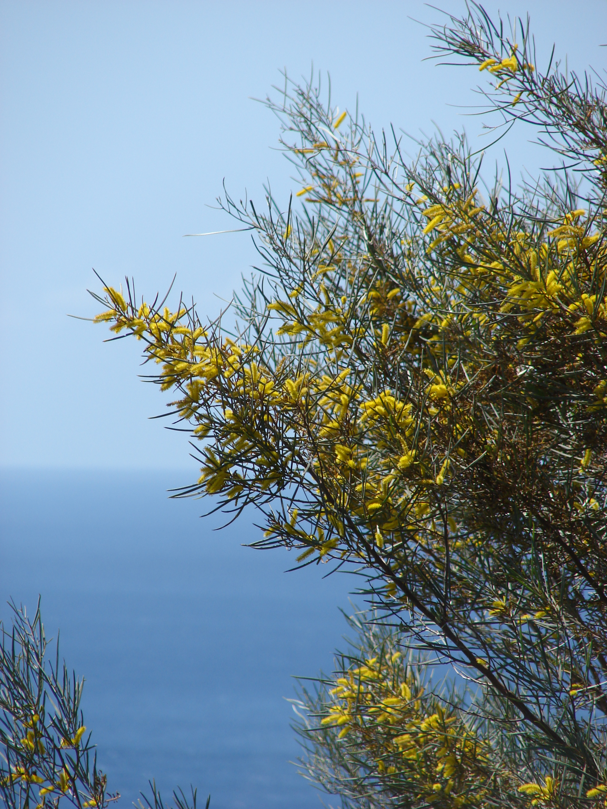 Acacia aneura (flowers and leaves). Location: Lanai, Kaumalapau Hwy